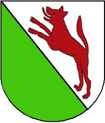 Coat of arms of Wolfhalden, Canton of Appenzell Ausserrhoden, SwitzerlandEsperanto: Blazono de Wolfhalden, Apencelo Ekstera, Svislando